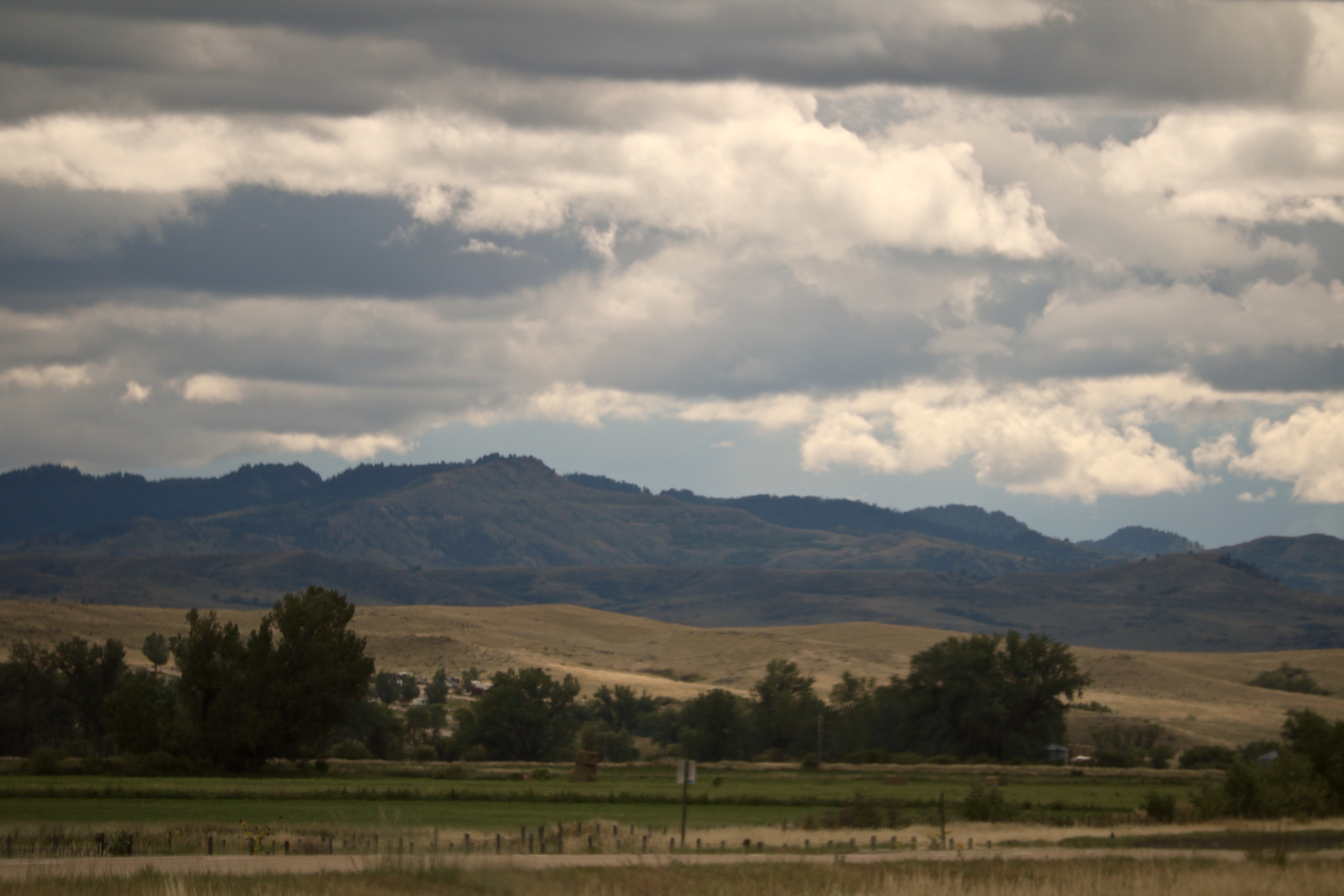 Images taken from Interstate 90 on the Crow Indian Reservation, Big Horn County, Montana, in the Crow Agency/Lodge Grass area